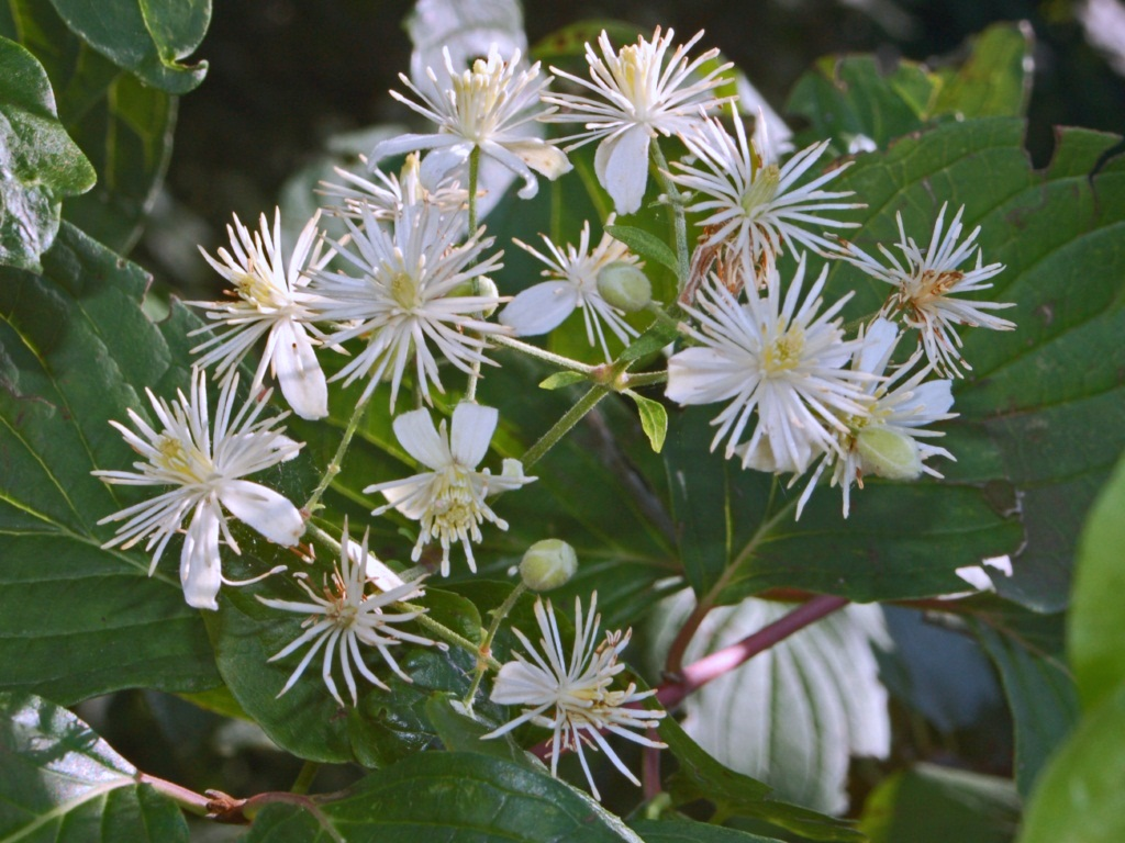 Clematis vitalba - Pian dei Grilli, Genova, Italy